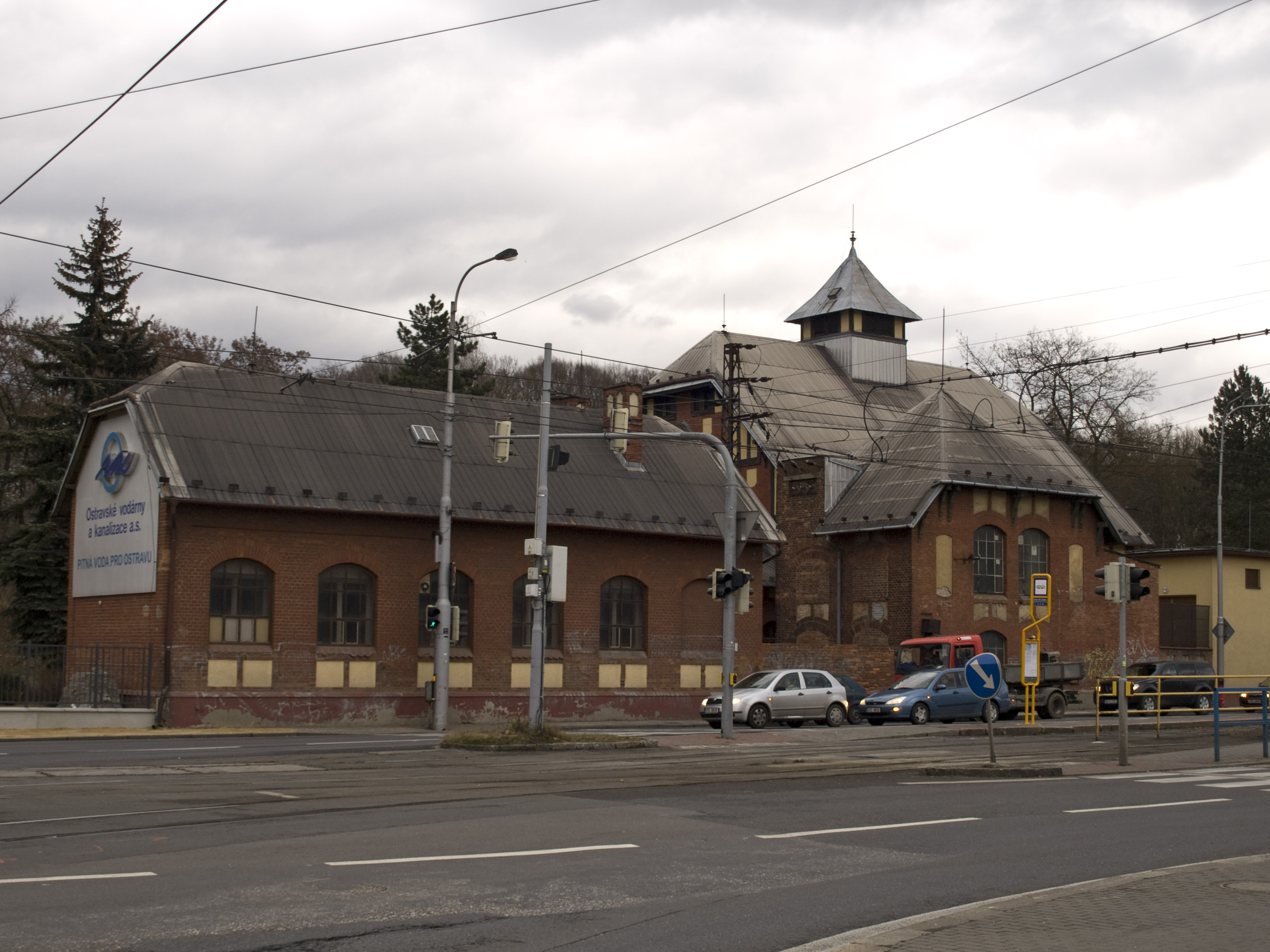 28. října × Plzeňská, Nová Ves, Ostrava